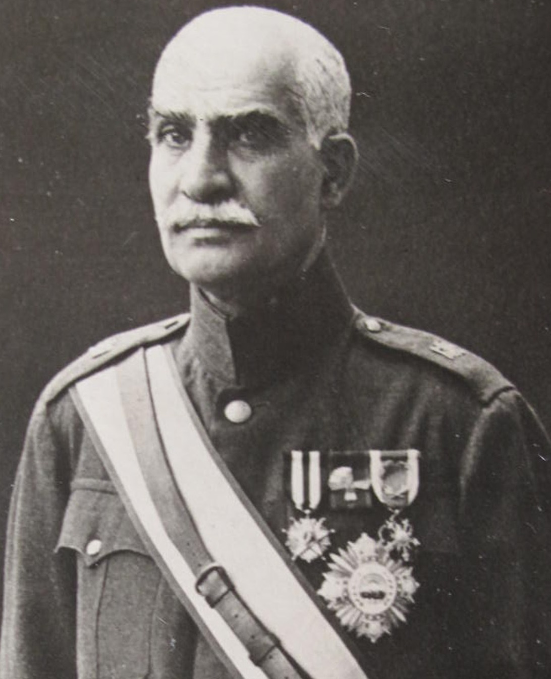 Reza Shah